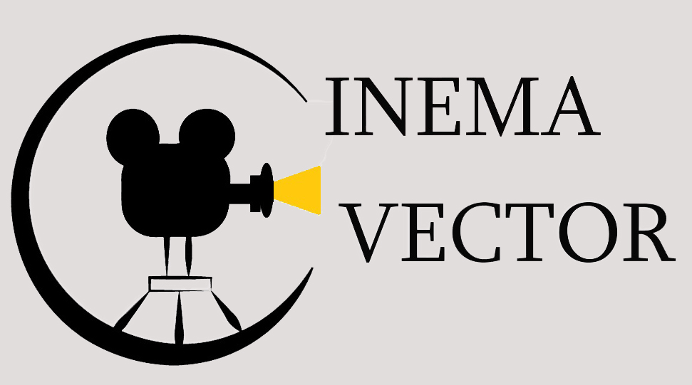 კინო-ვექტორის ლოგო